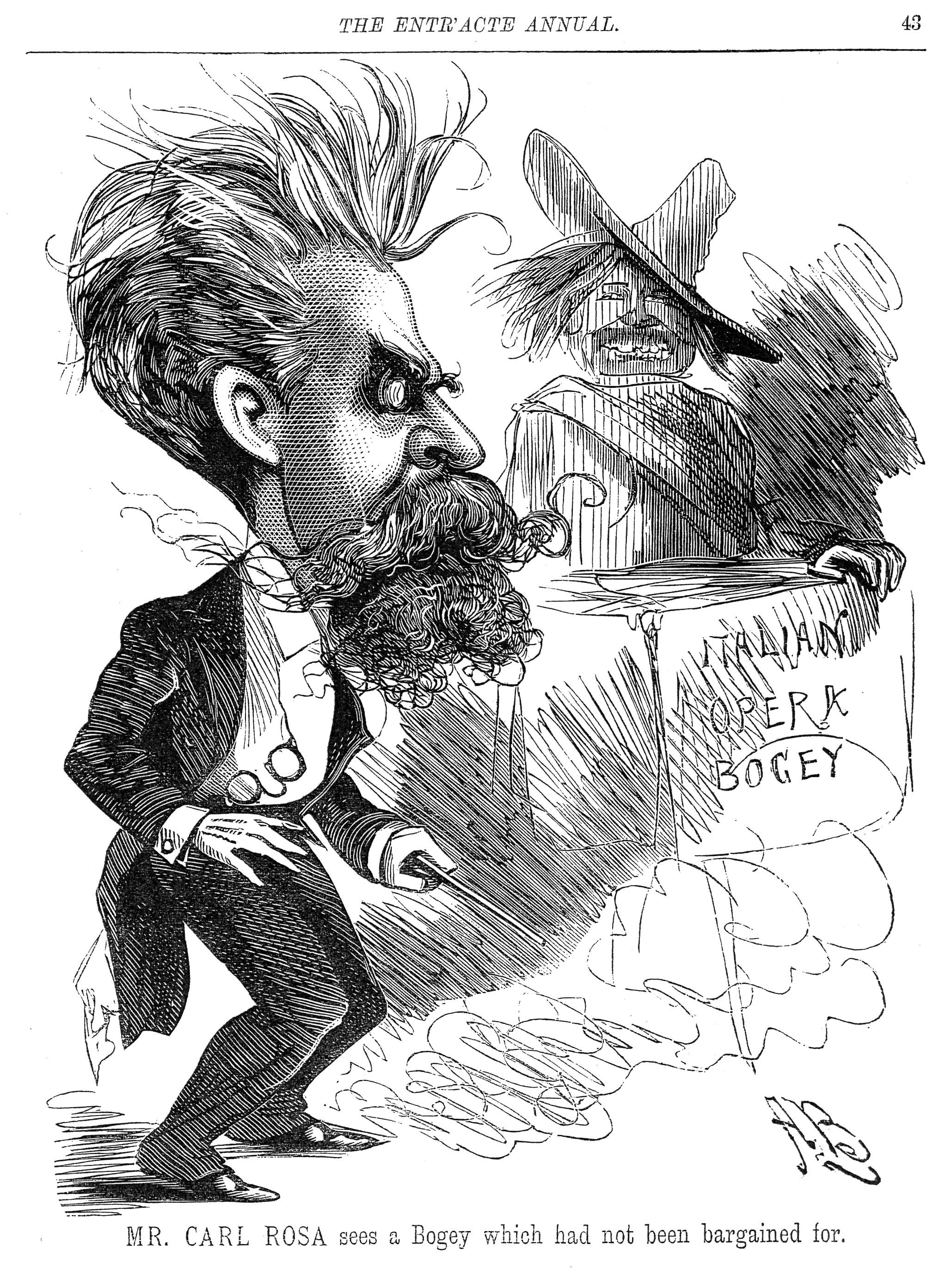 Carl Rosa is startled by the bogey of Italian opera. A bogey, as far as the uploader can tell, was something like a jack-in-the-box that was used for pranks.